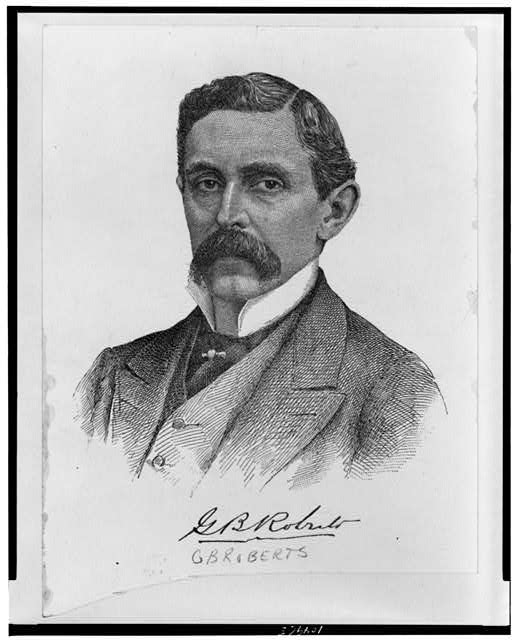 Engraving of George Brooke Roberts (1833-1897), President of the Pennsylvania Railroad, from "Distinguished Railroad Men of America" (1890)